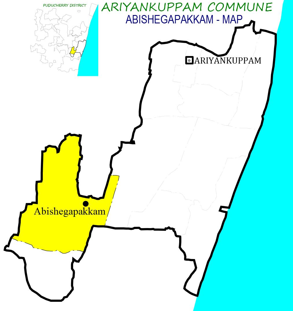 Abhishegapakkam village in Ariyankuppam Commune